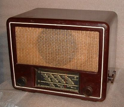 Bulgarian Voroshilov 504 radio made from 1950 by Elprom KB (Kliment Voroshilov Works, Slabotokov zavod), Sofia